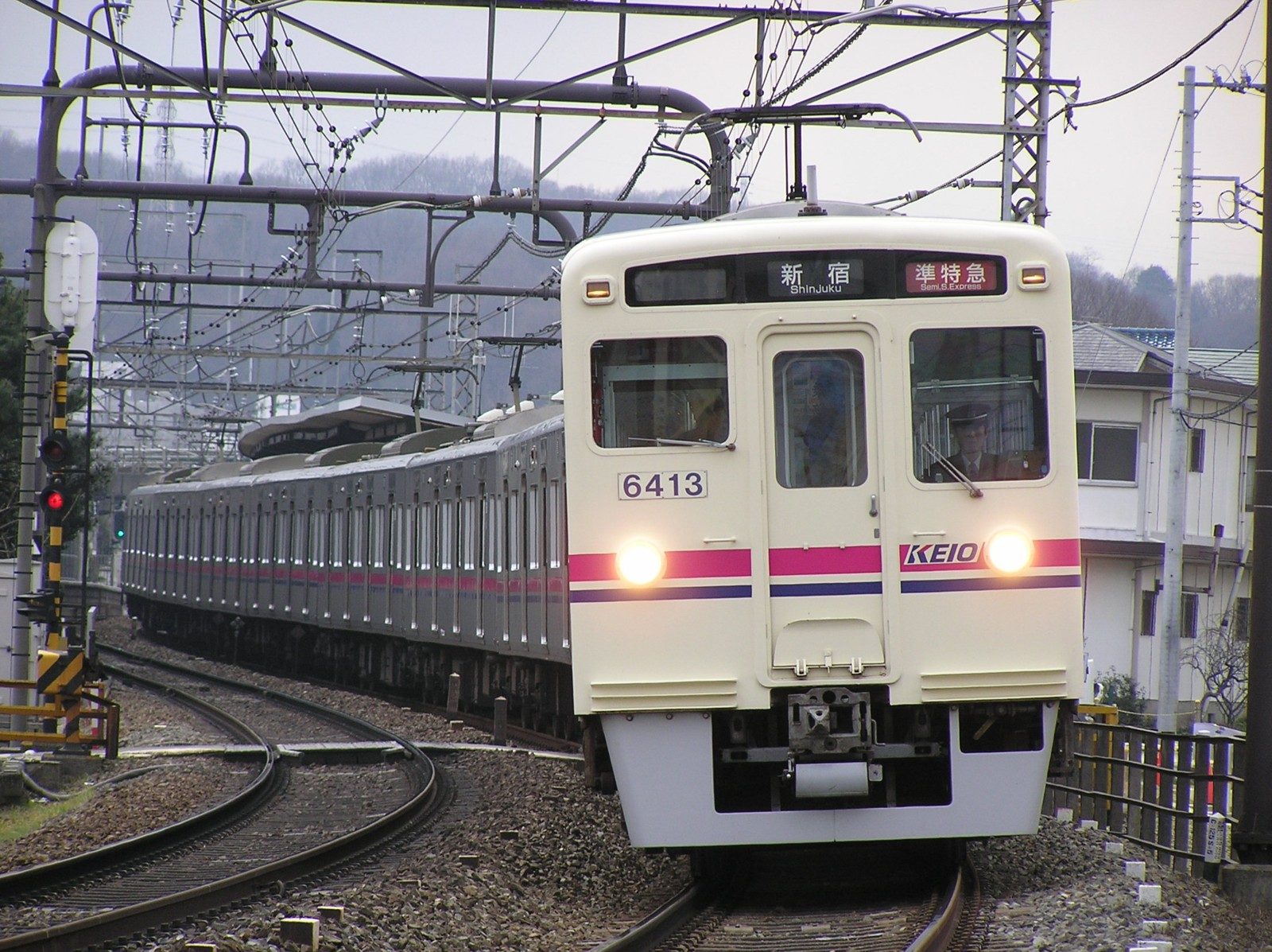 撮影地 Place of photo南平～平山城址公園撮影の状況 How to take公道から撮影 At public roadトリミングの有無 Cropped or not非トリミング Not Cropped 内容 Description京王9702F+京王6413F